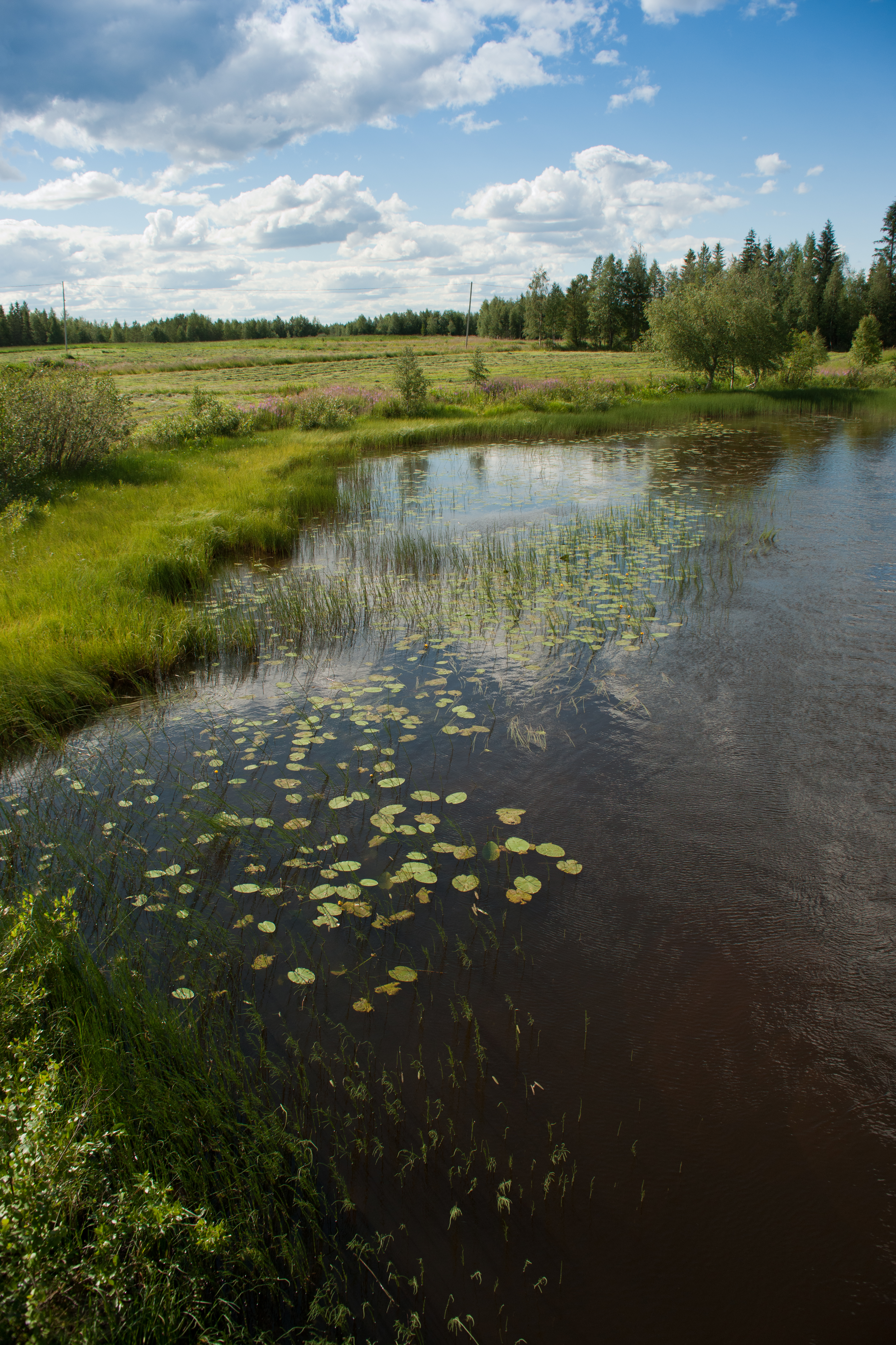 Iijoki, Finland.